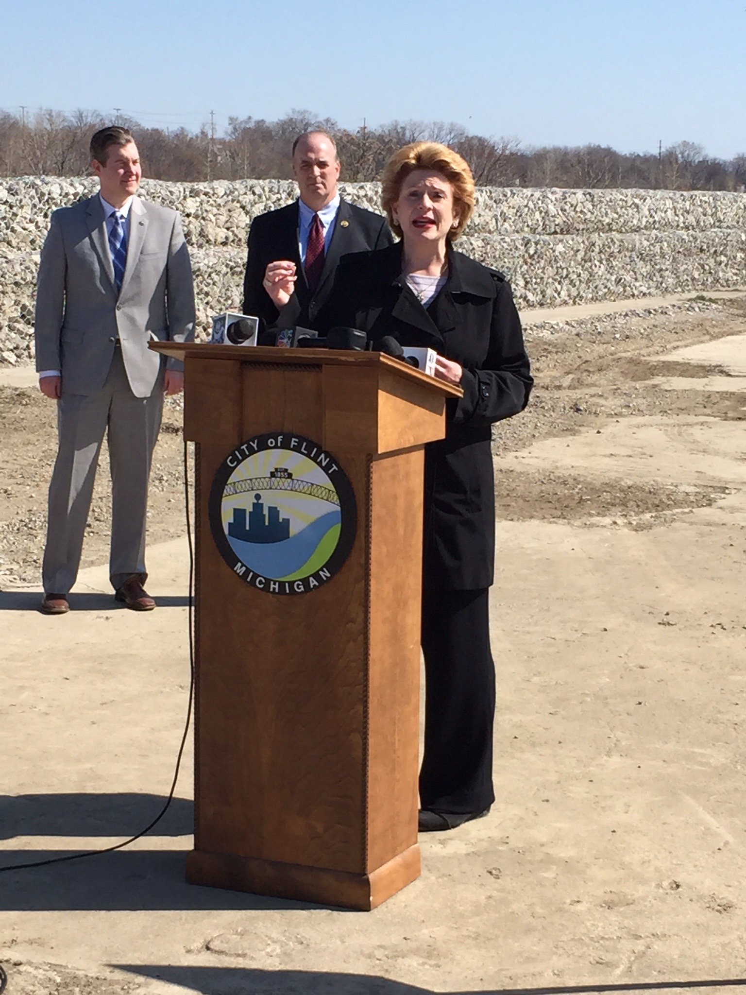 Photo provided by the office of U.S. Senator Debbie Stabenow.